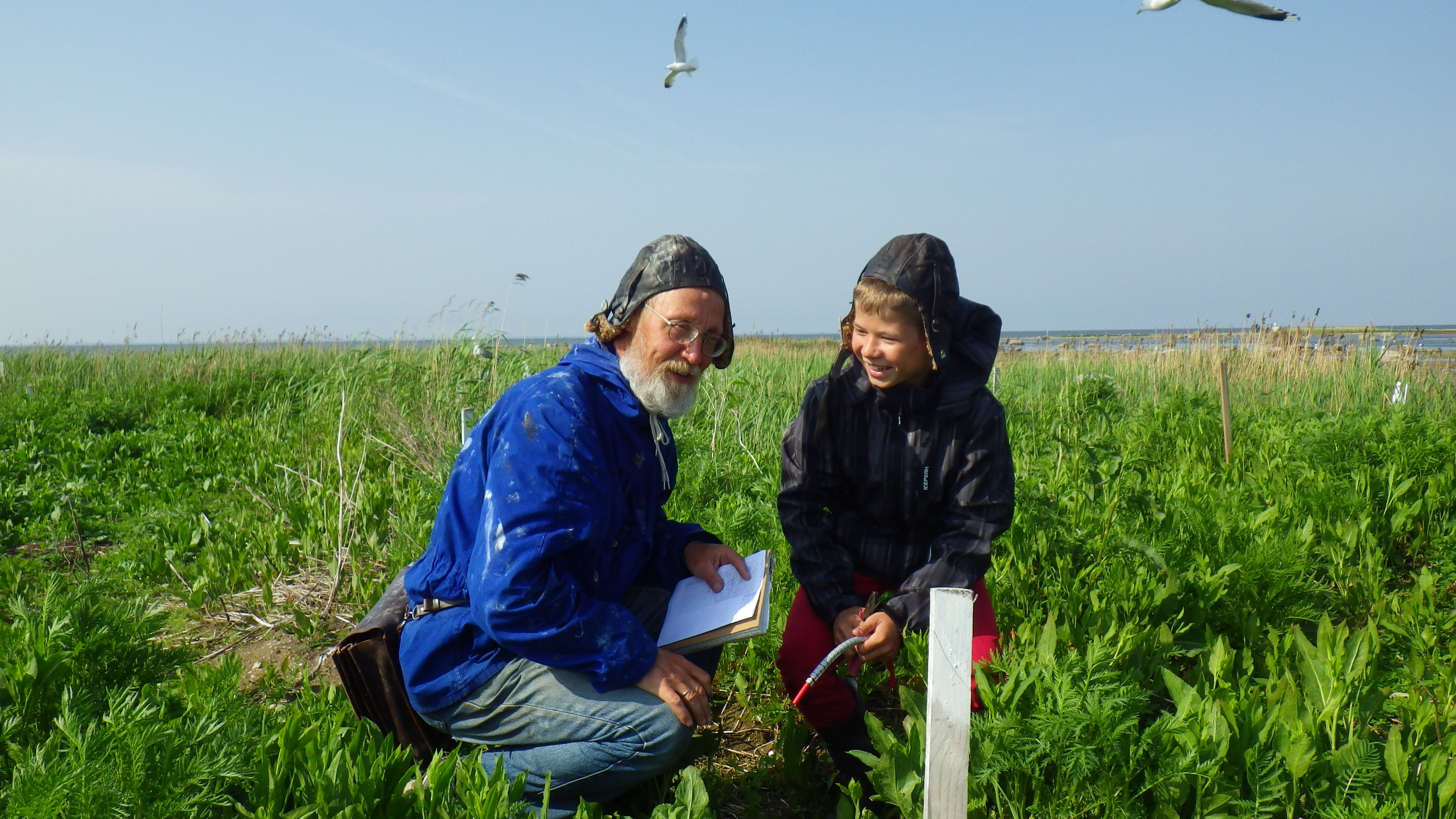 Ornithologists Kalev Rattiste and Art Villem Adojaan on Kakrarahu islet, at Mew Gull colony.